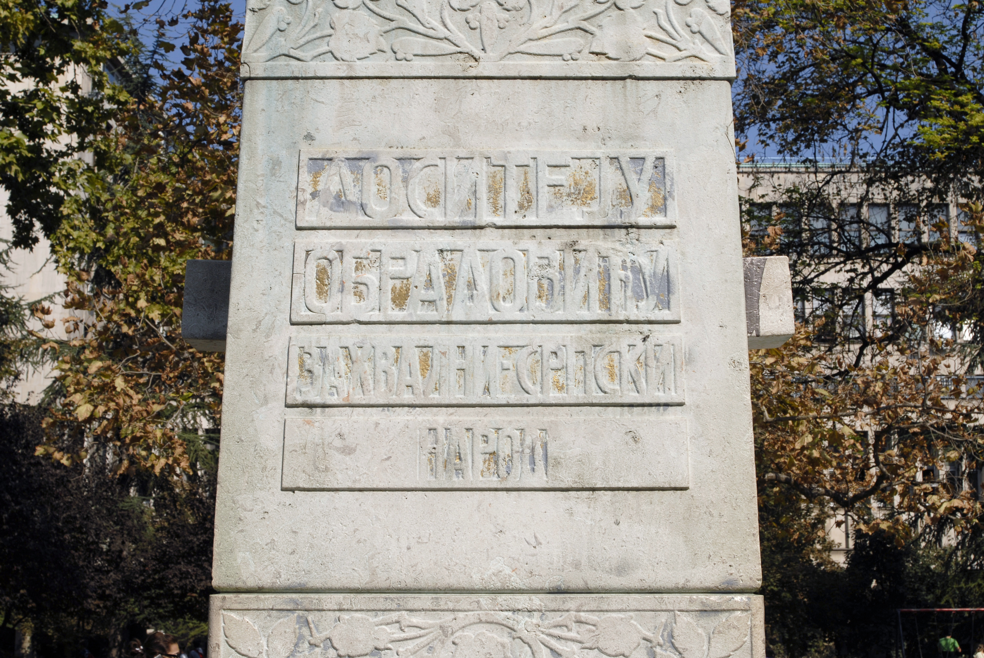 Споменик Доситеју Обрадовићу